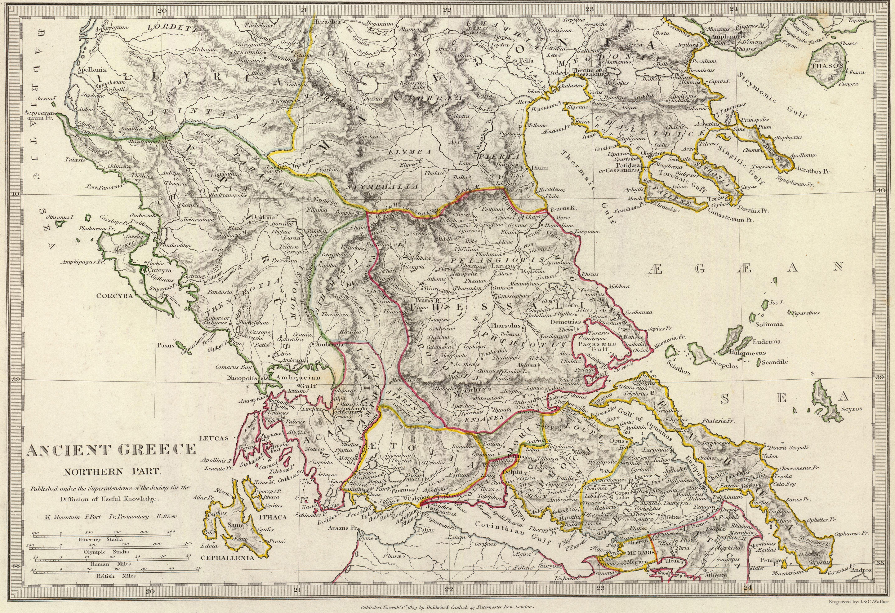 Map of Ancient Greece, Northern Part (Macedonia, Thessaly, Epirus, & Acarnania, Aitolia, Dolopia)